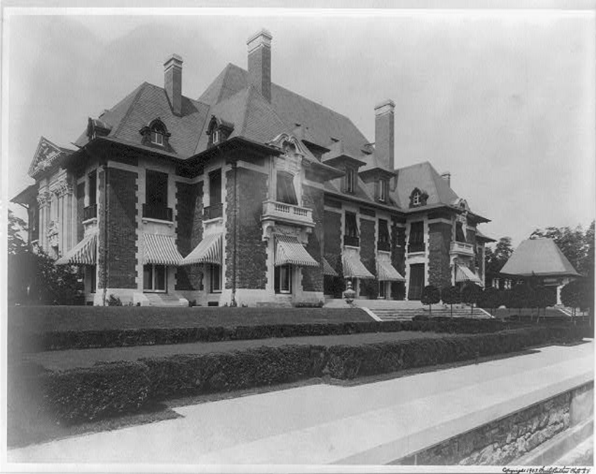 "Blairsden", a large mansion owned by C.L. Blair: view of front of house, ca. 1903.